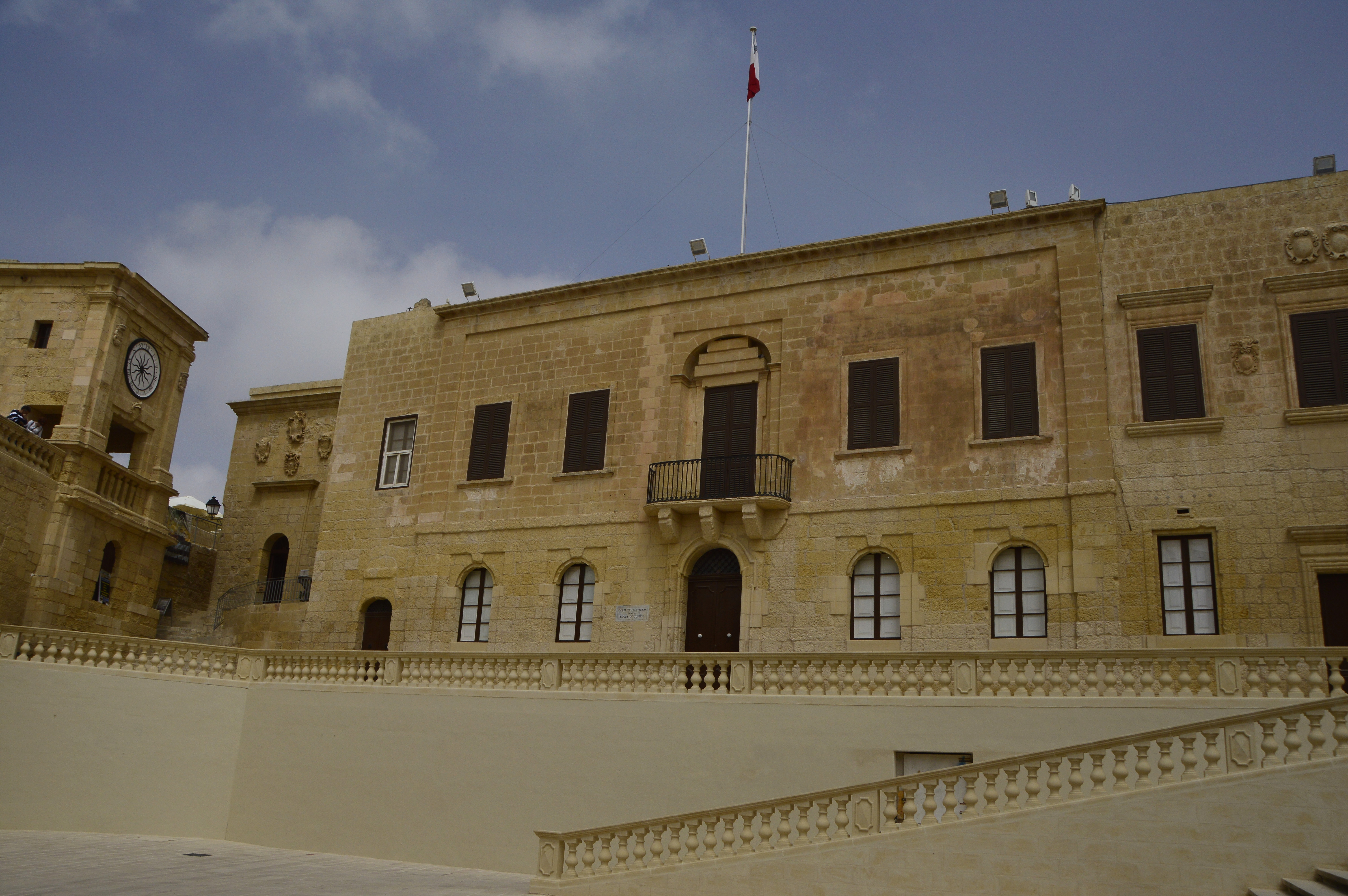 Law Courts This media is about Maltese cultural property with inventory number 01239.